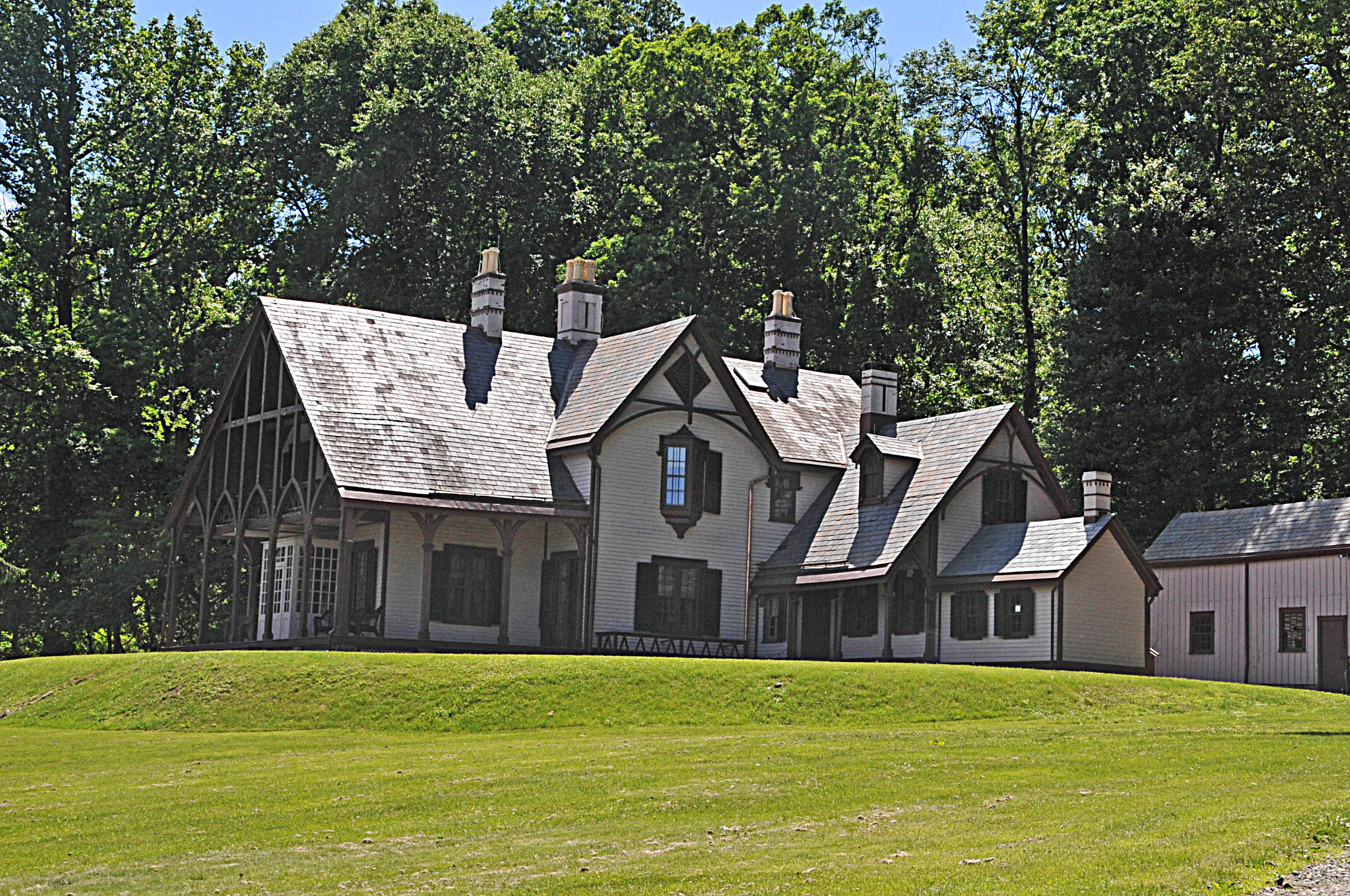 ALSO KNOWN AS THE WILLOWS. FOSTERFIELDS IS A LIVING HISTORY MUSEUM RUN BY MORRIS TOWNSHIP; IT CONTAINS THE HOUSE BUILT IN 1854 BY GENERAL JOSEPH REVERE, GRANDSON OF PAUL REVERE, WHO WAS COURT-MARTIALED FOR CONTROVERSIAL ACTIONS AT CHANCELLORSVILLE, BUT EXONERATED BY PRESIDENT LINCOLN. CHARLES FOSTER BOUGHT THE FARM IN 1881 AND HIS DAUGHTER DONATED IT TO THE COUNTY PARK COMMISSION IN 1973